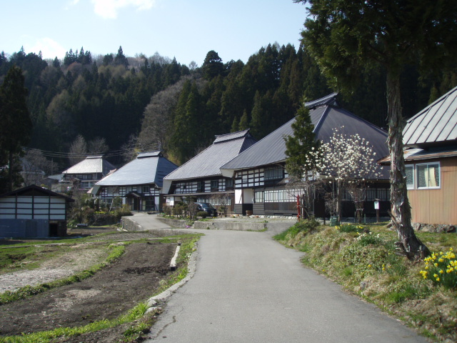 Aoni village Hakuba, Nagano